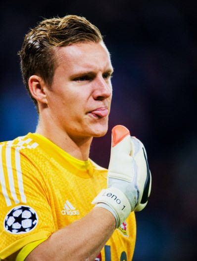 Bernd Leno